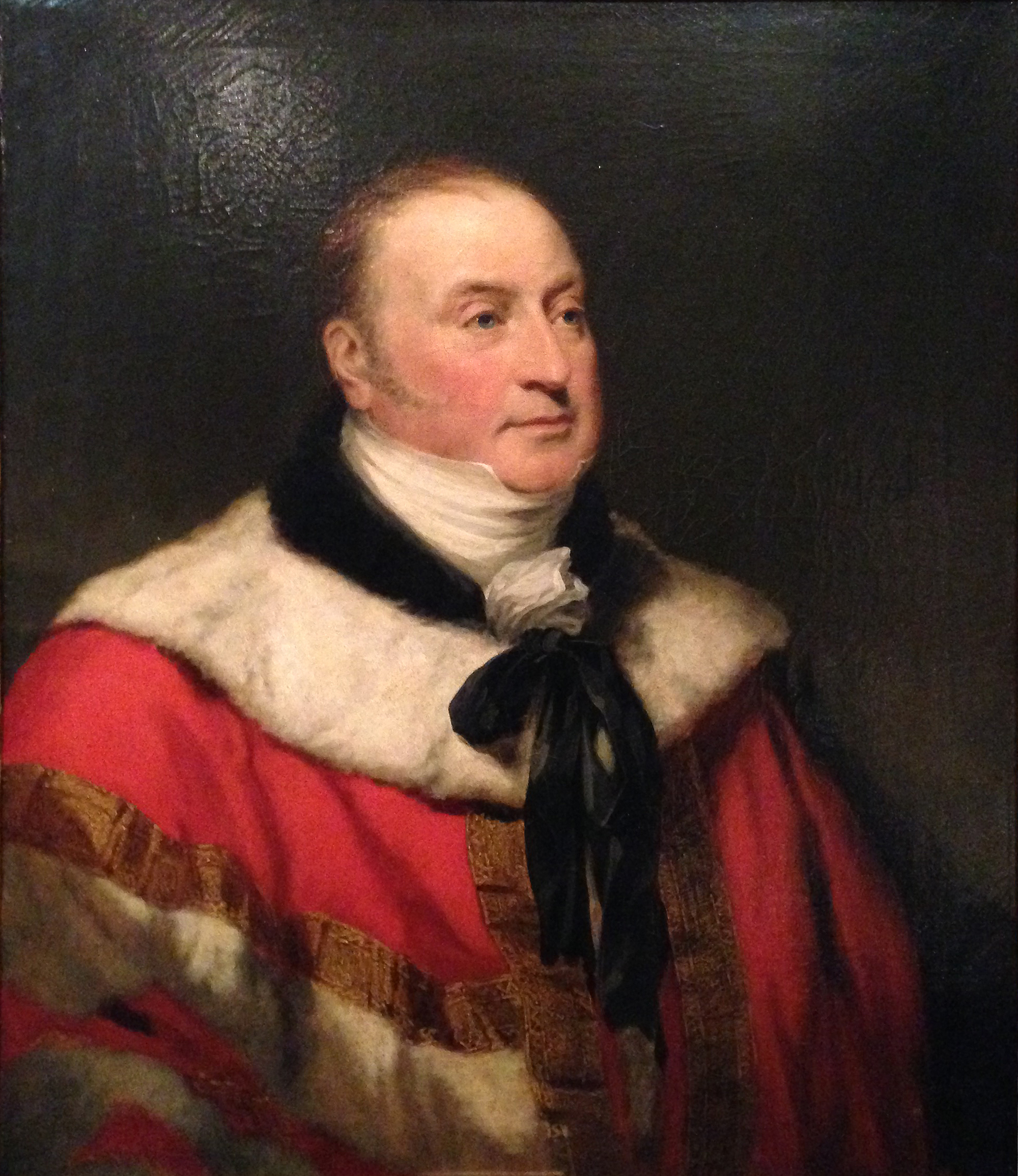 Painting by Sir Thomas Lawrence of George Capel-Coningsby, 5th Earl of Essex FSA (13 November 1757 – 23 April 1839), son and heir of William Anne Capell, 4th Earl of Essex (1732–1799) and the elder brother of Thomas Bladen Capel, Captain (later Admiral) in the Royal Navy and one of Nelson's Band of Brothers.